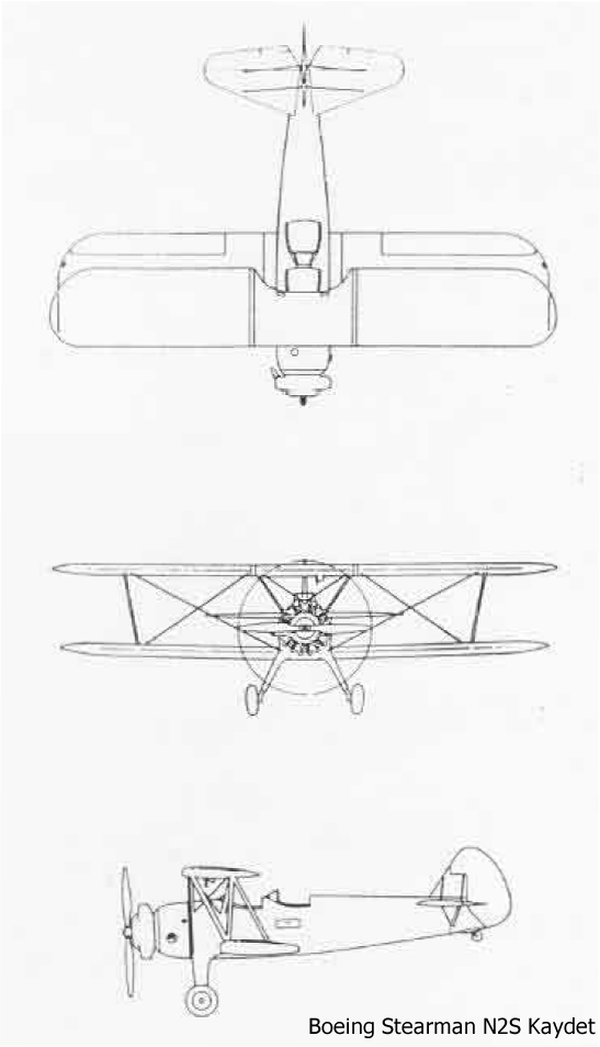 Three-view drawing of the Boeing Stearman Model 75 Kaydet. (USAAF PT-13/-17/-18/-27, USN N2S).